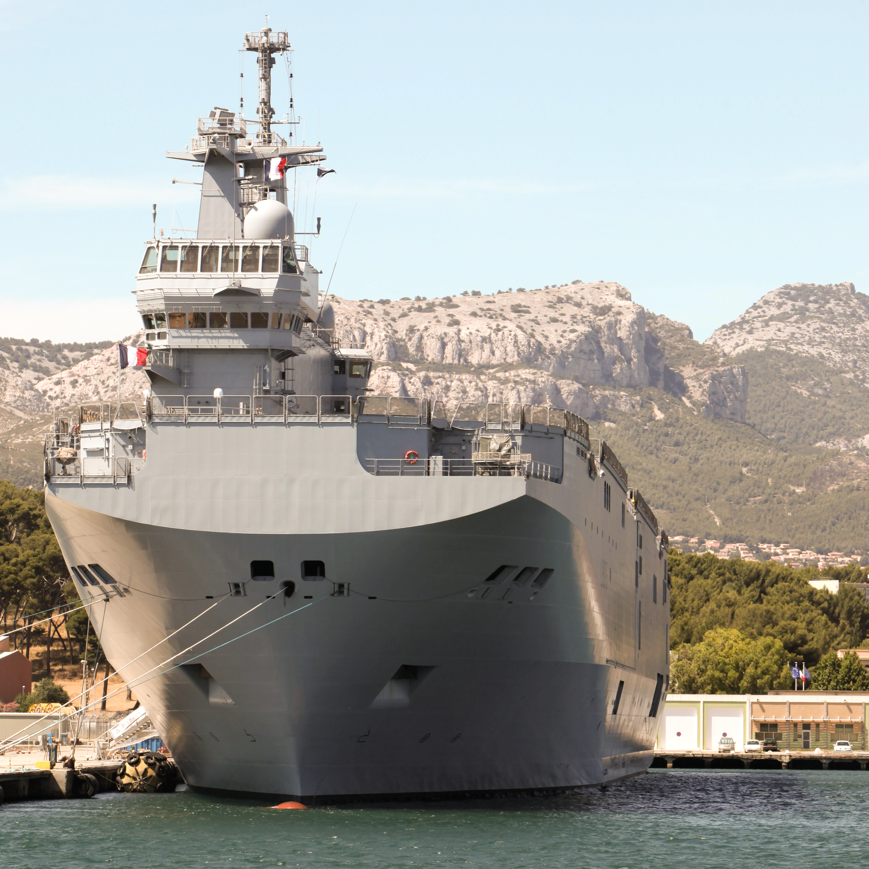 The BPC Dixmude (L9015) on the 14th of July 2011, one day after she arrived in Toulon from Saint-Nazaire for fitting out.